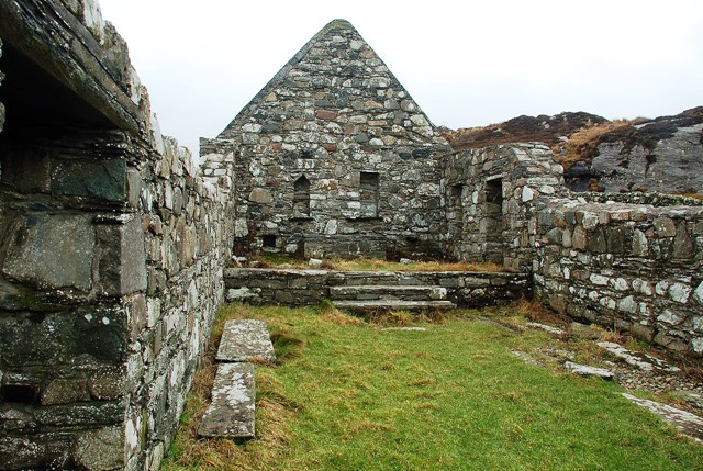 Inside Kilchiaran Chapel Kilchiaran Chapel may date back to the 14th century. A 1972 restoration project saved the walls and reconstructed the altar area. (Source: "Islay" by Norman S Newton).